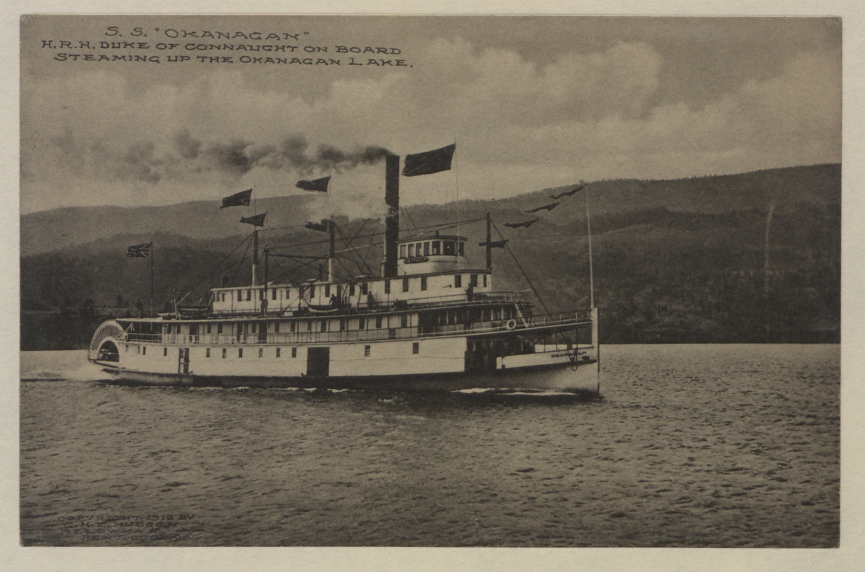 S.S. "Okanagan", HRH Duke of Connaught on board, steaming up the Okanagan Lake.